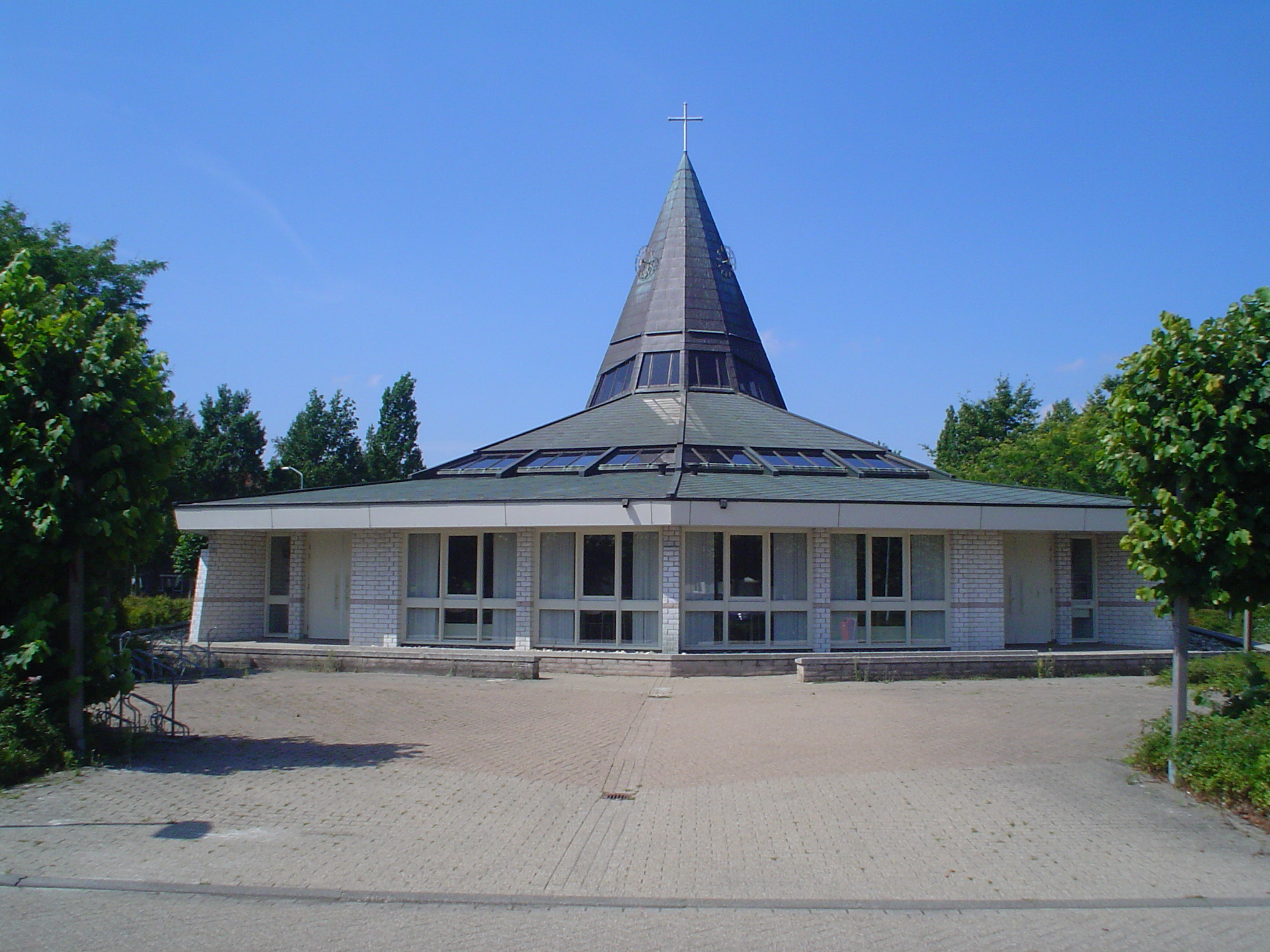 Saint Maartenchurch in Veldhoven, the Netherlands. Built in 1990.